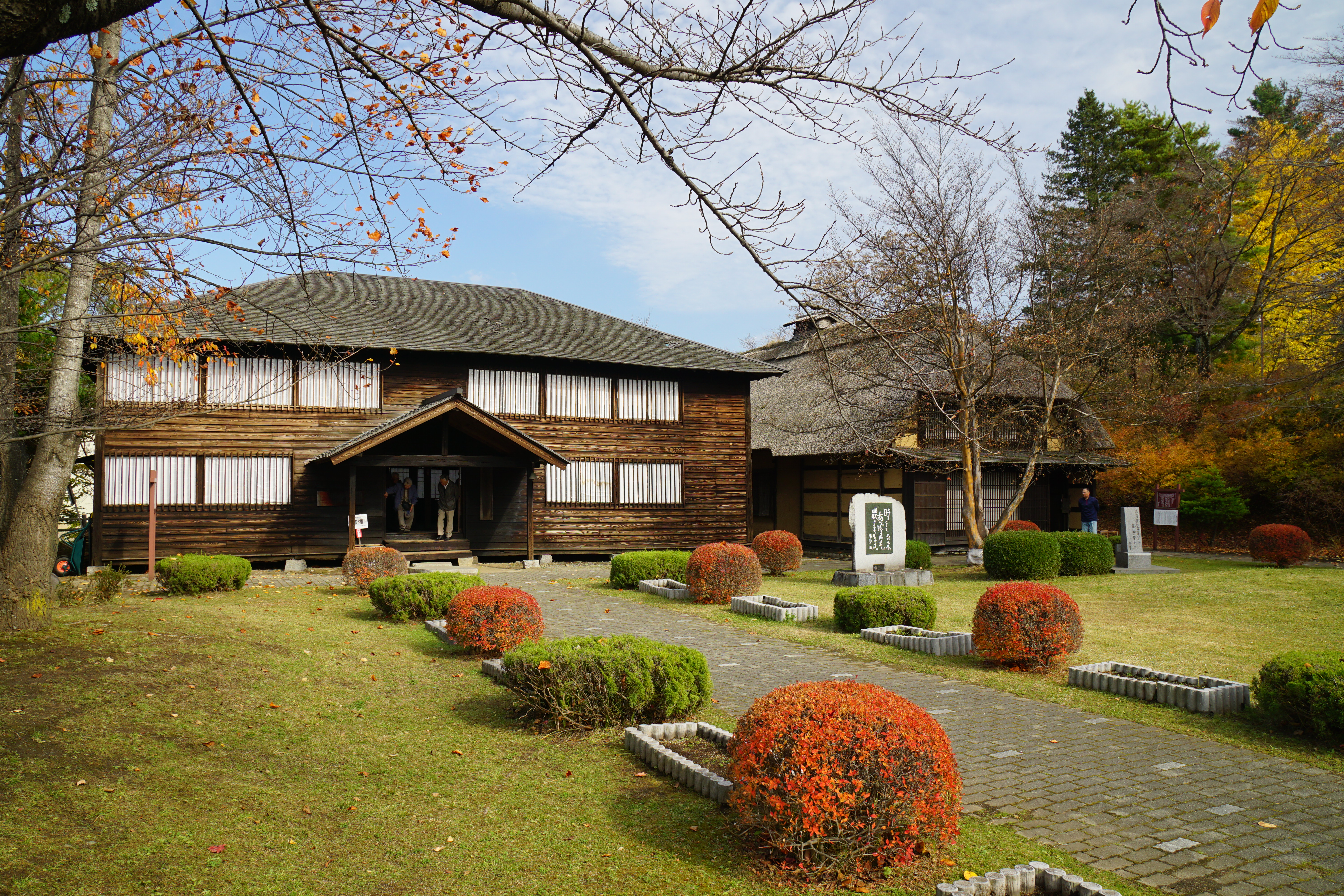 Ishikawa_Takuboku_Memorial_Museum in Shibutami, Morioka, Iwate prefecture, Japan